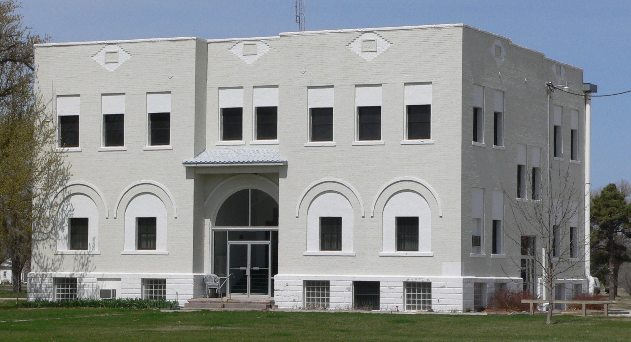 Keya Paha County courthouse in Springview, Nebraska; seen from the southeast. The building was constructed in 1914.